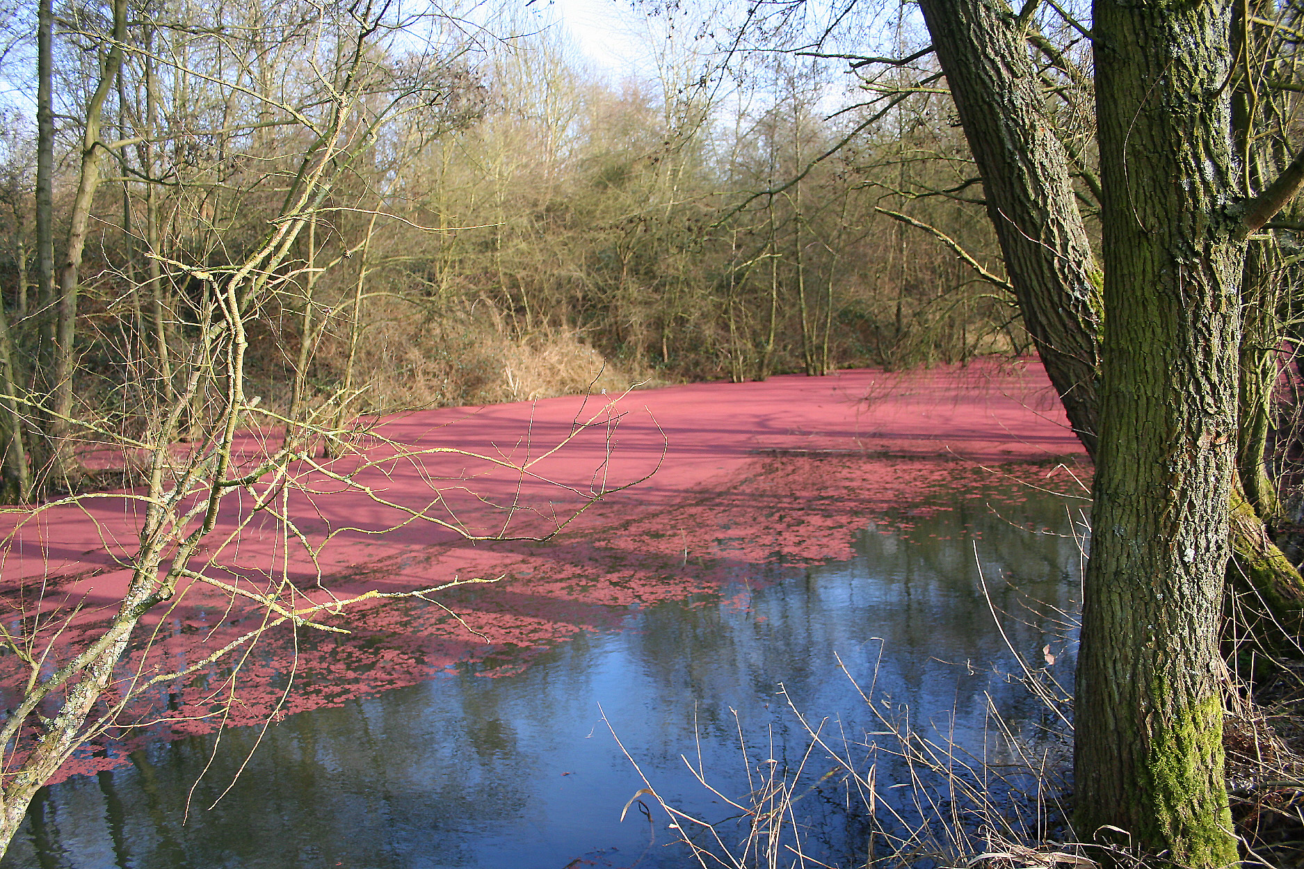 Harchies (Belgium), Chemin des Maillettes – Little pond in part covered by little parts of poplars male catkins. Walon: Harchîyes (Bèljike), Tchmin dès Mayètes – Frèchaus èt paurtîye rascovru pa dès pitits bokèts d’maules di minous d'nwârès plopes.